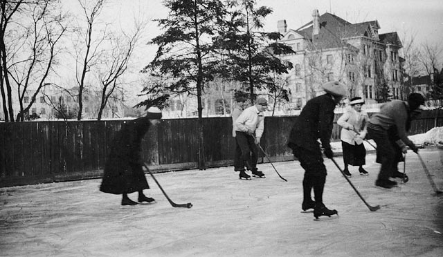 Hockey in Winnipeg, Manitoba, 1910.